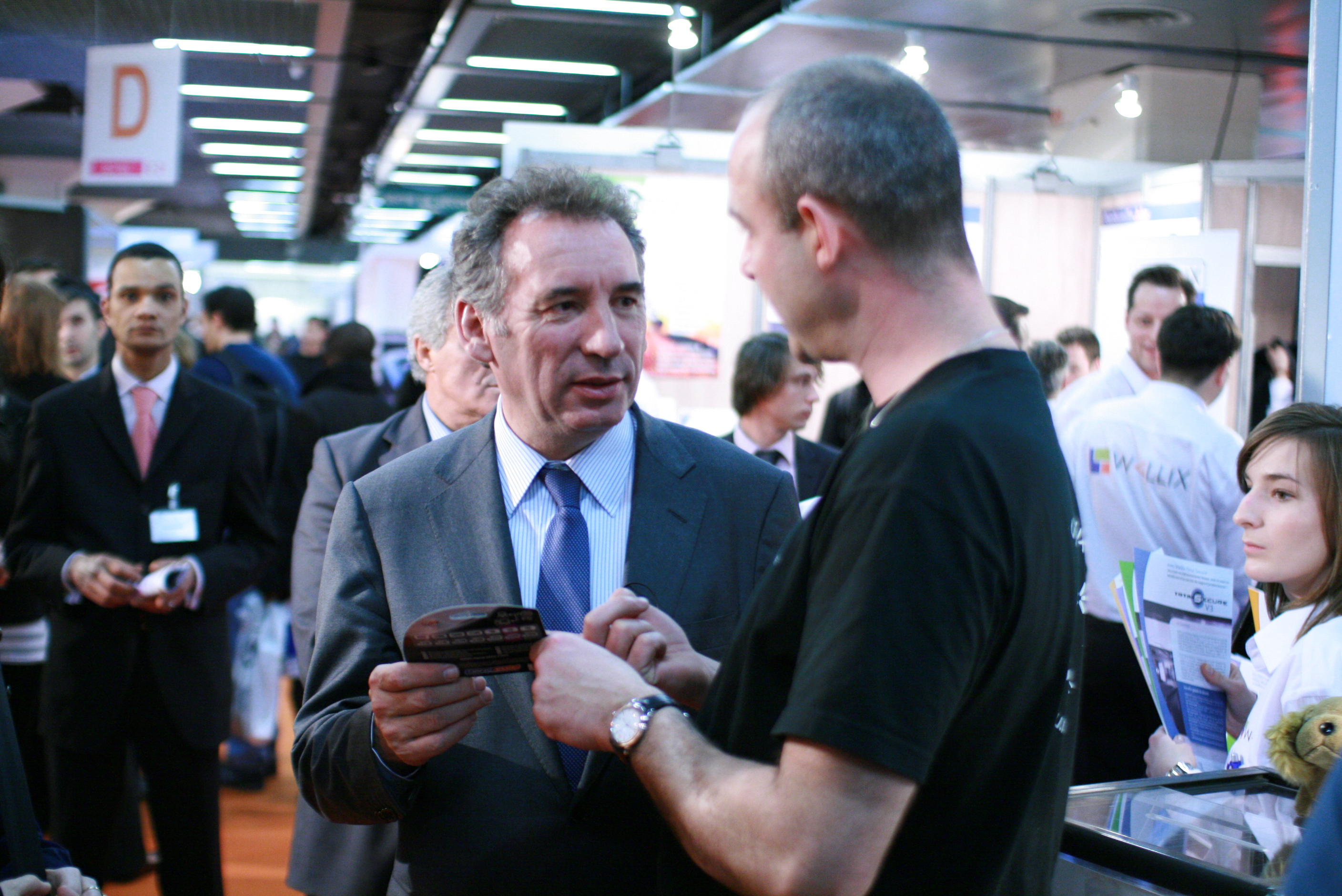 François Bayrou at a Linux fair in Paris-La Défense, January 2007